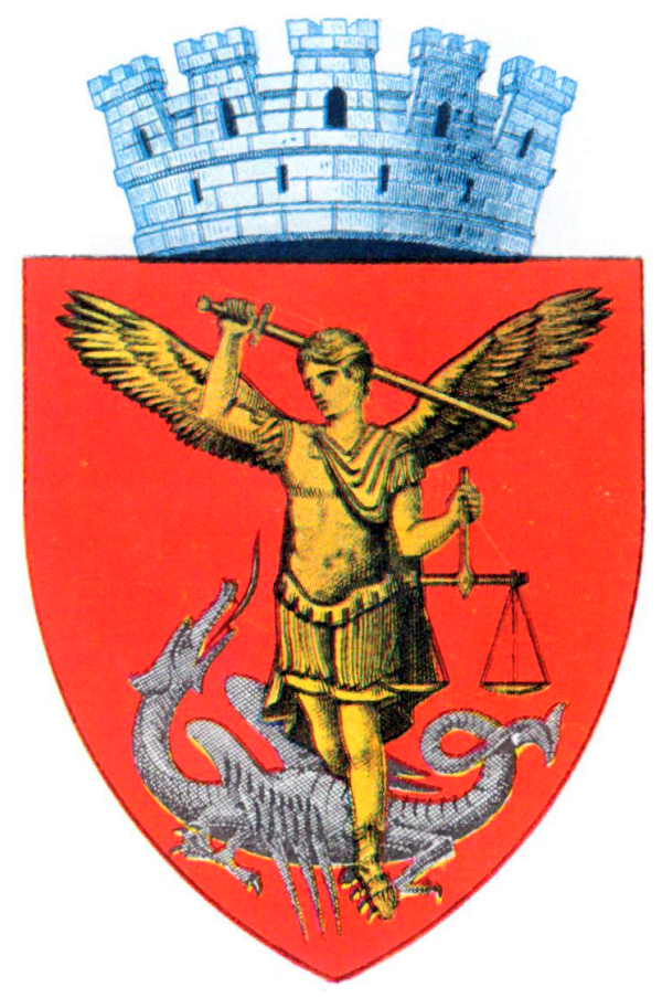 Interwar coat of arms of Zalău, Sălaj County, Kingdom of Romania.